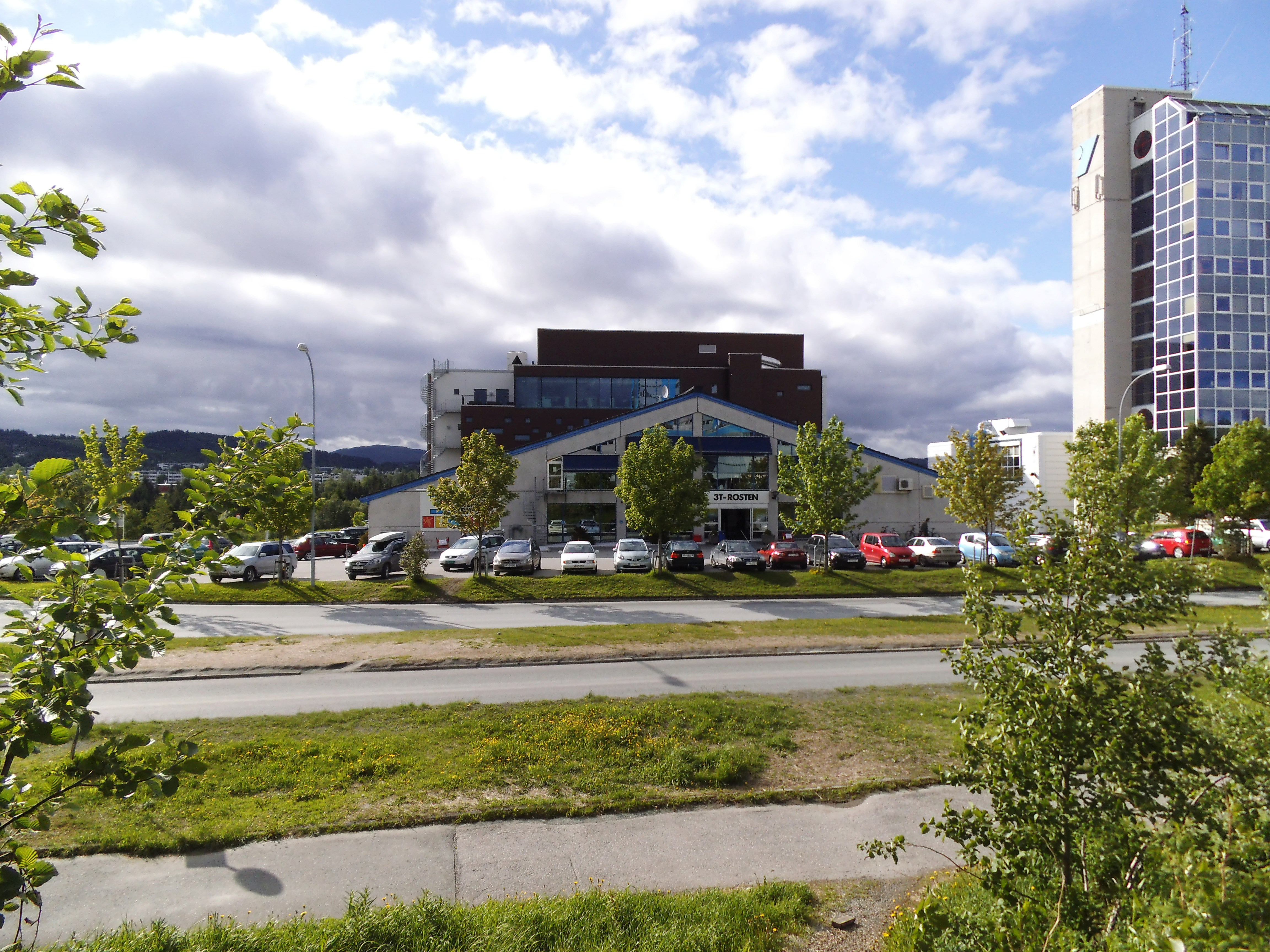 3T på Rosten is a health club in Tiller, Trondheim.